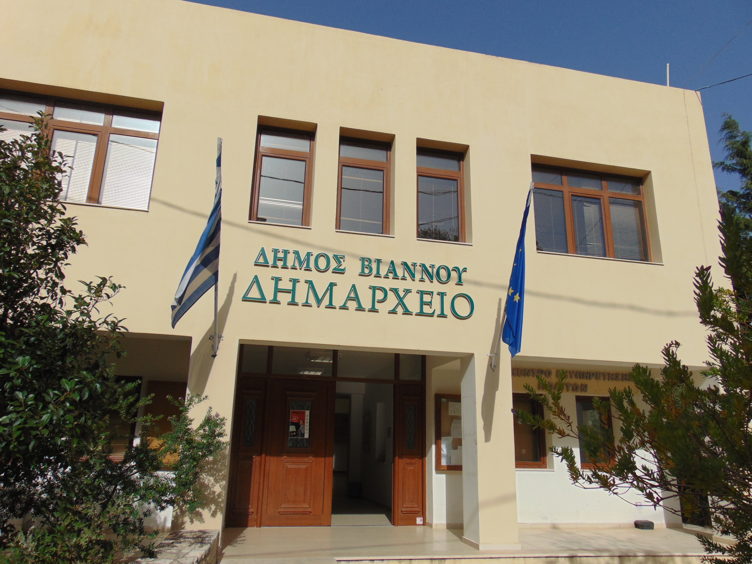 Viannos town hall in 2018